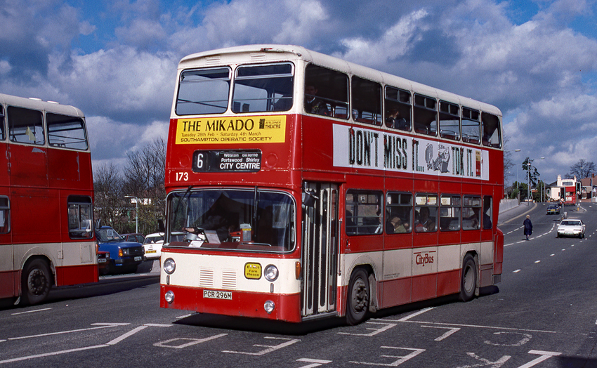 Southampton CityBus 173 Leyland Atlantean AN68/1R East Lancs (PCR 269M) still in Southampton Corporation livery on the West End Road in Bitterne. Scanned from a Kodachrome 35mm slide.